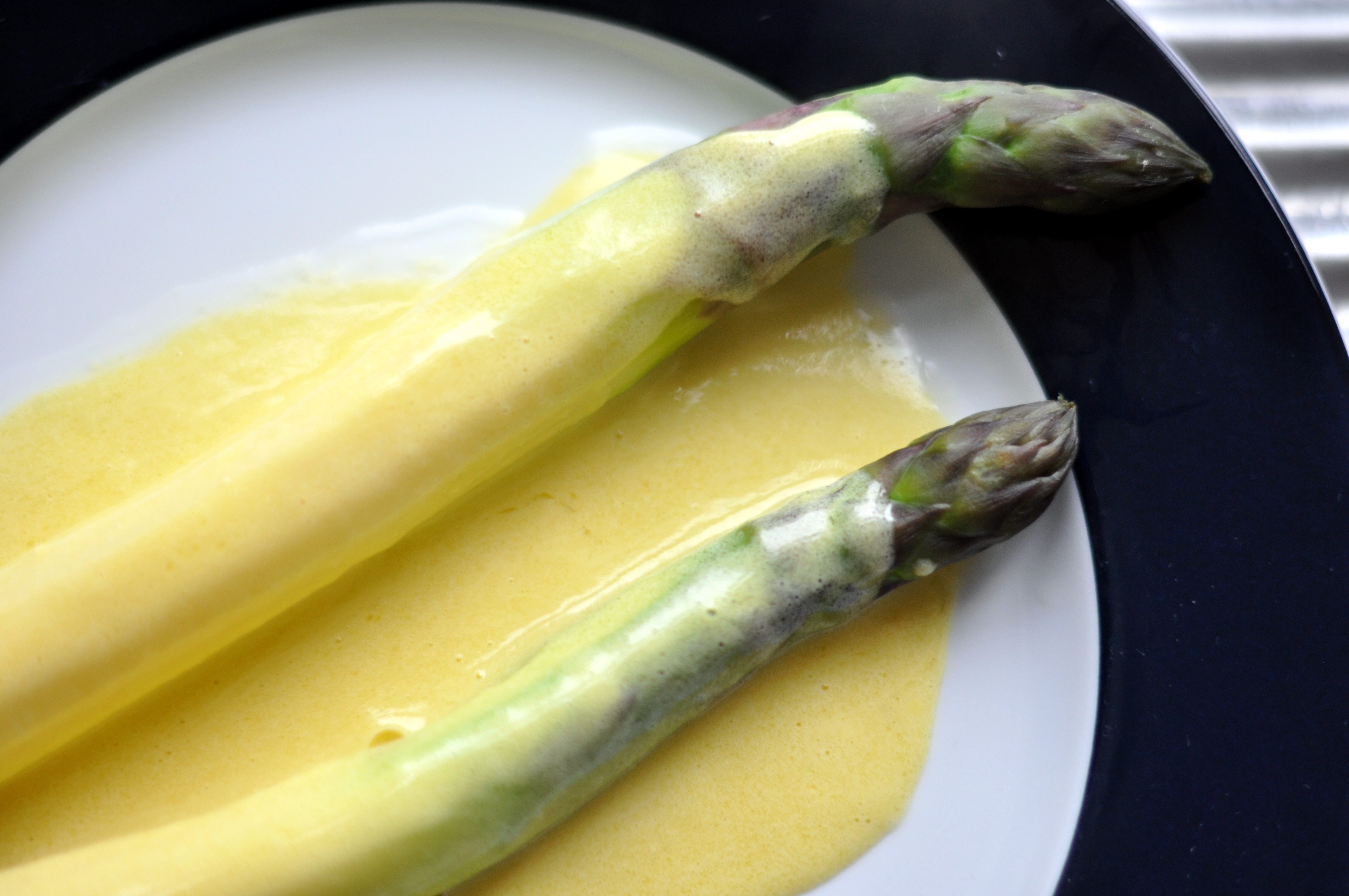 Asparges med hollandaise